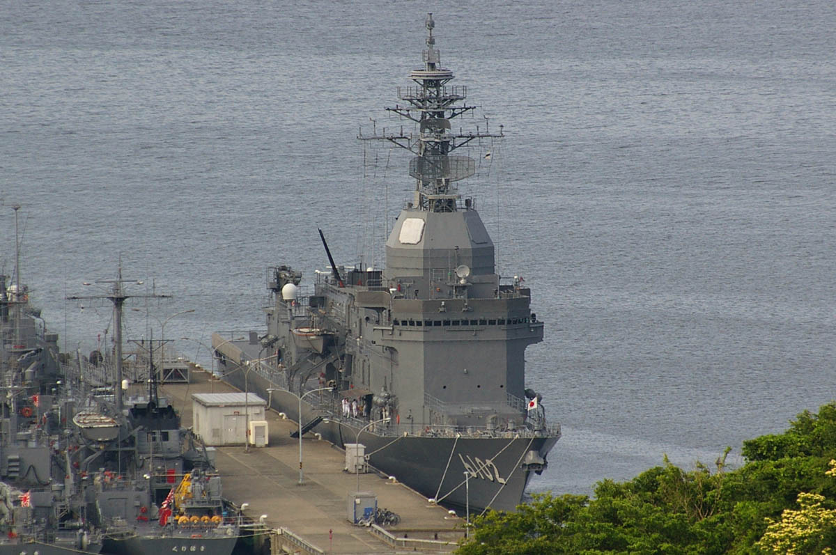 JS Asuka (ASE-6102) at Yokosuka.